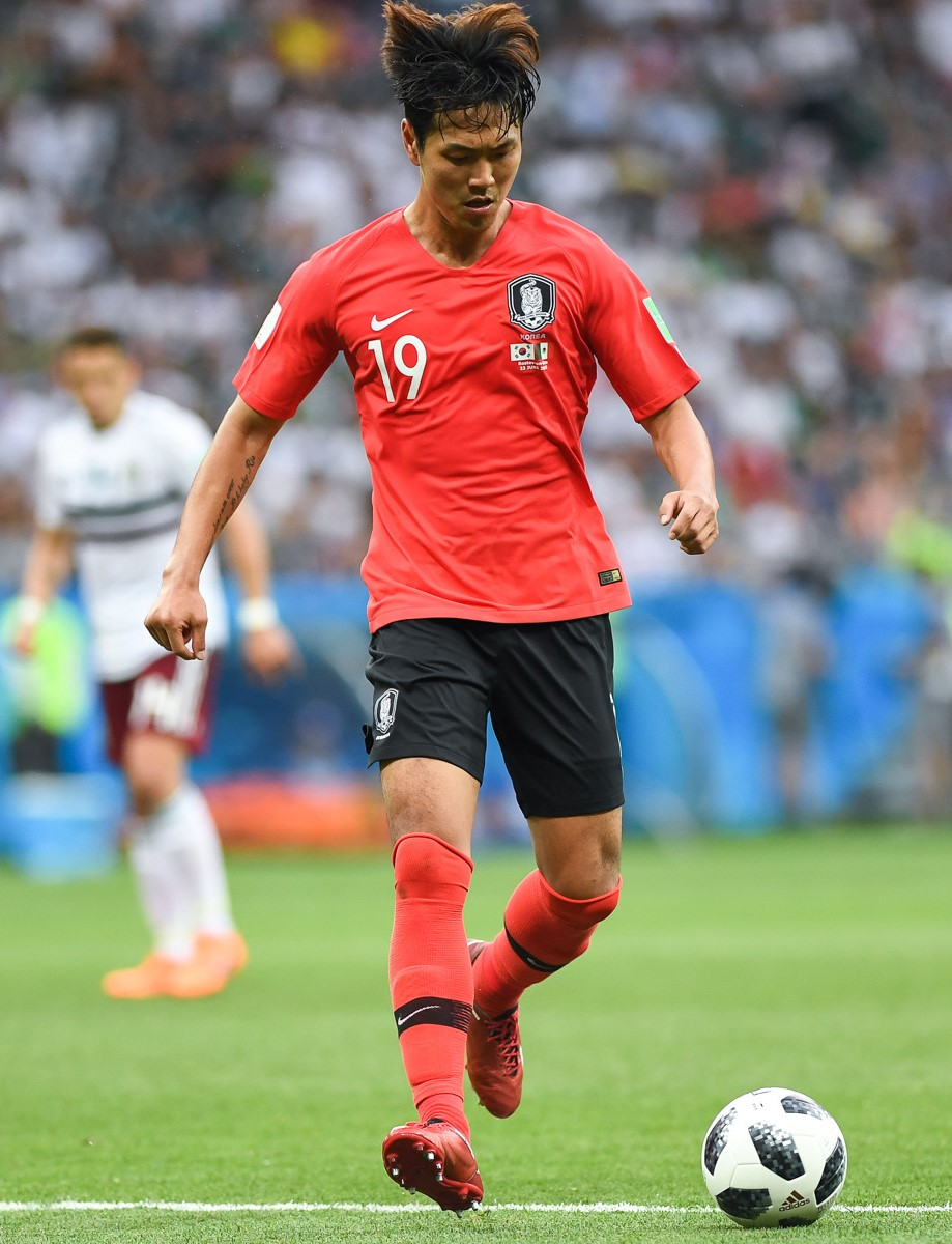 Kim Young-Gwon